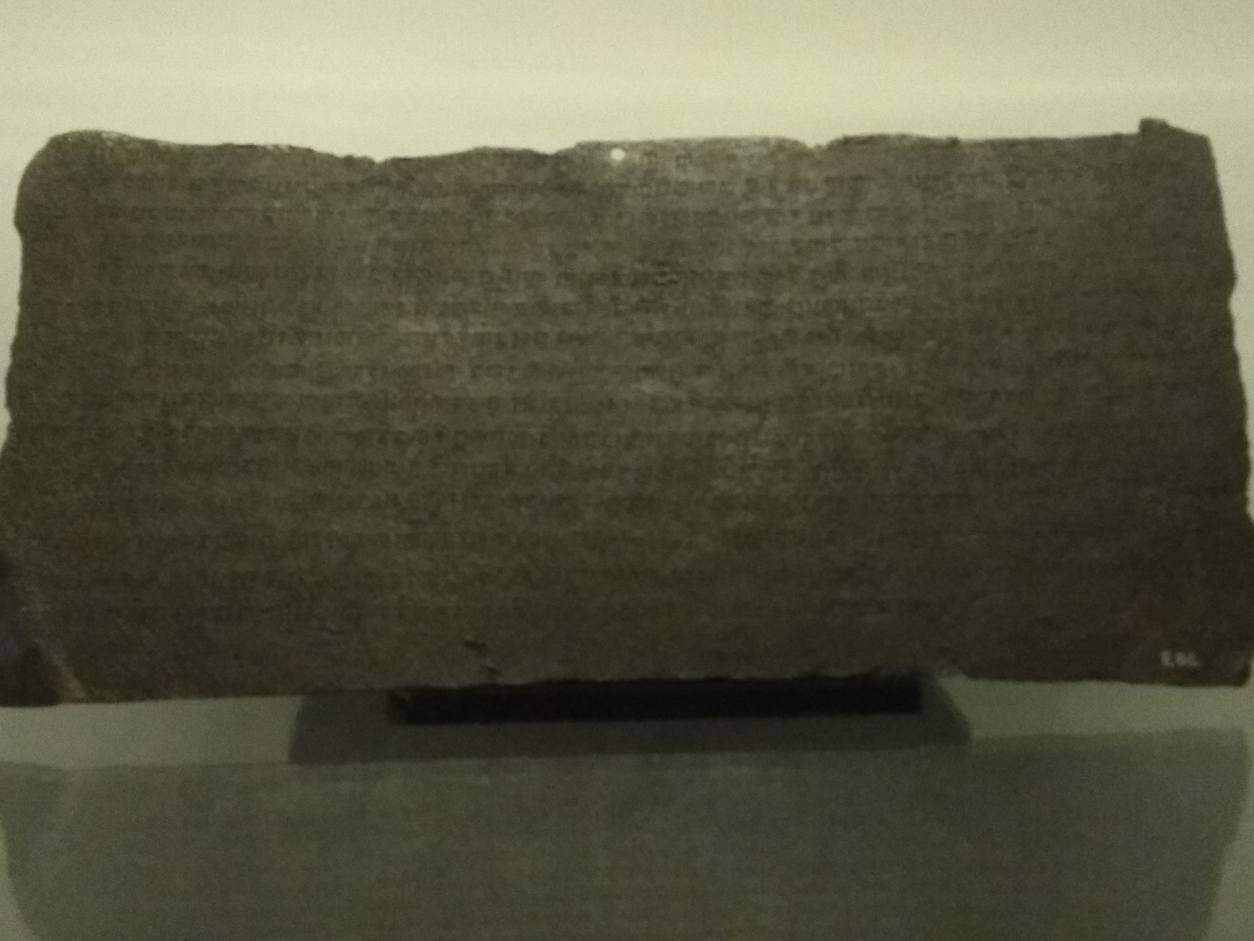 Palepangan inscription, a copper plate, found within the area of Borobudur, Magelang, Central Java, Indonesia. Dated 826 Çaka / 906 A.D. Collection of the National Museum of Indonesia, Inventory no. E. 66.